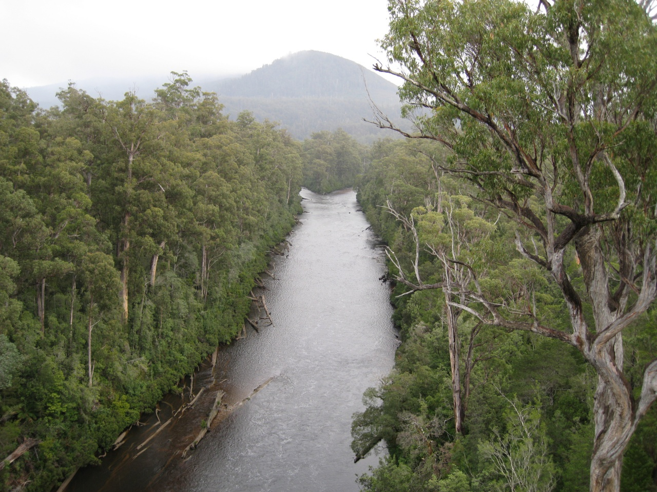 The Huon River near the junction of the Picton and Huon Rivers in the Tahune State Park, Tasmania, Australia. Photo taken from the cantilever section of the Tahune Forest AirWalk.